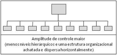 Amplitude administrativa maior